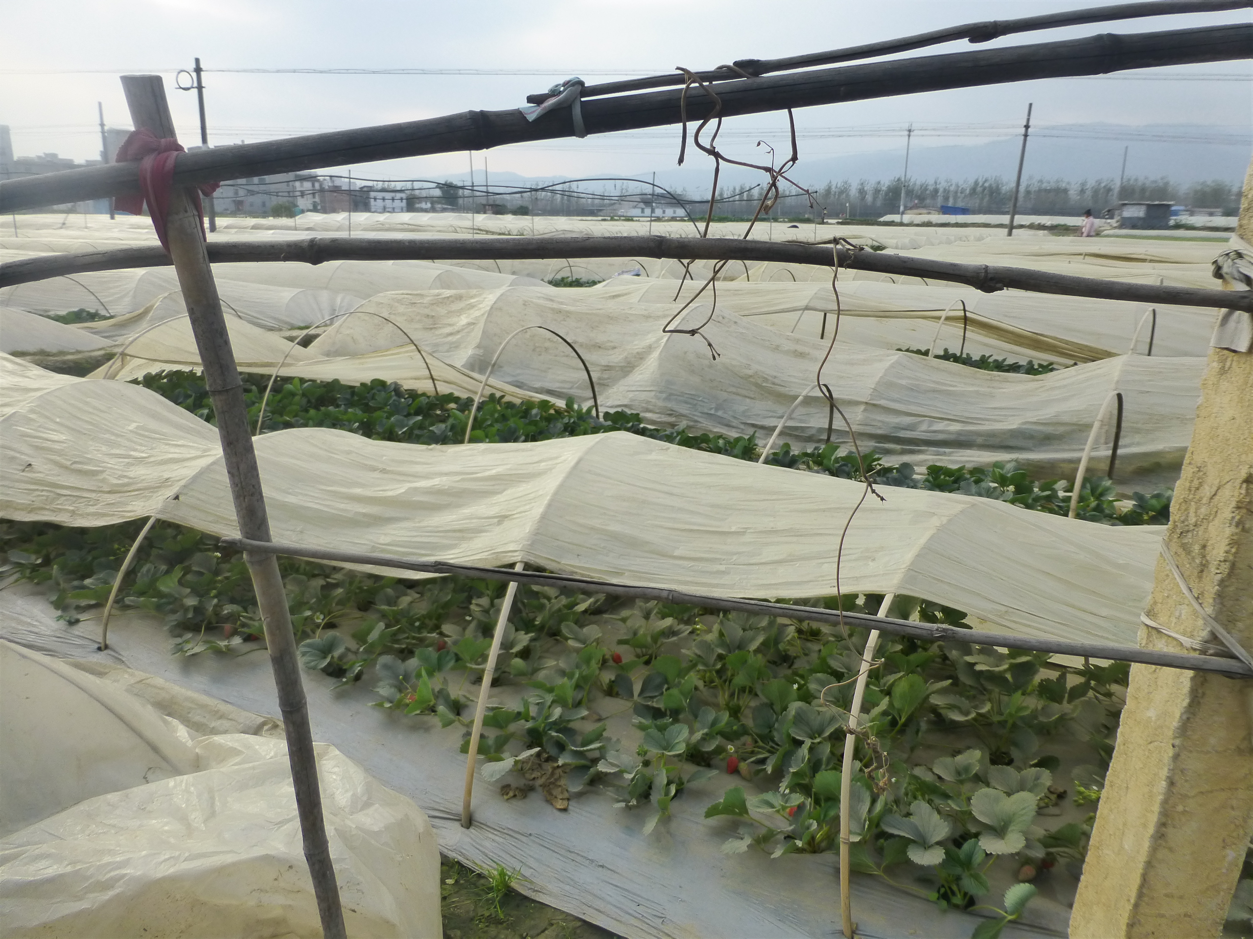 Strawberry fields in Beicheng Subdistrict, Hongta District, Yuxi, Yunnan